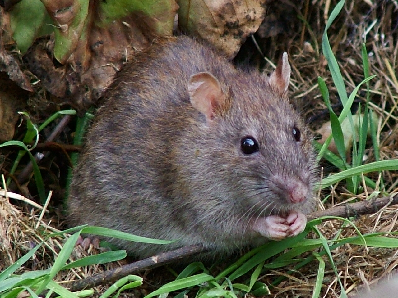 Wild rat